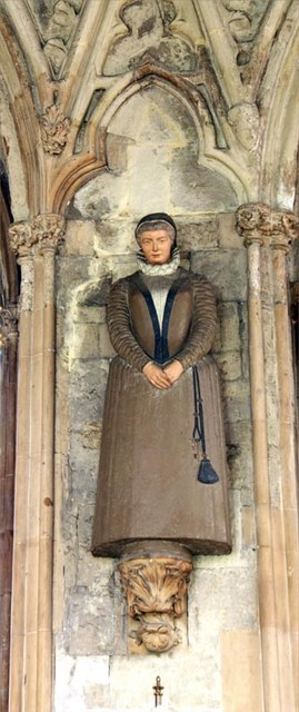 St Etheldreda, Ely Place, London EC1 - Nave statue St Anne Line